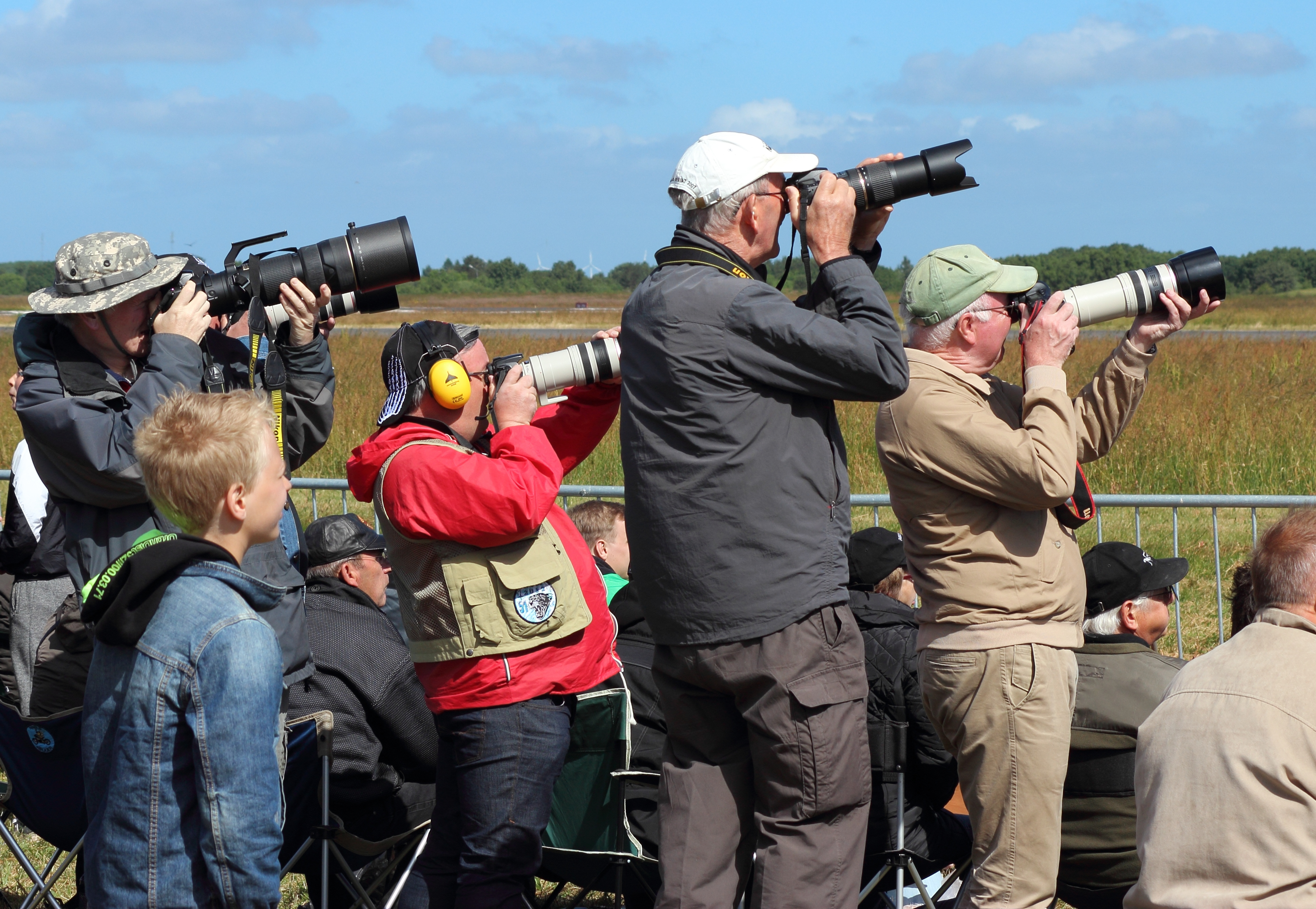 Aircraft spotters at Danish Air Show 2014